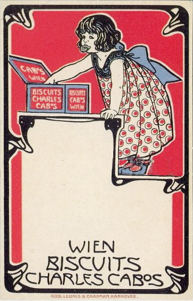 Art nouveau advertisement for Wien Biscuits by Charles Cabos. Size: 9x14 cm.